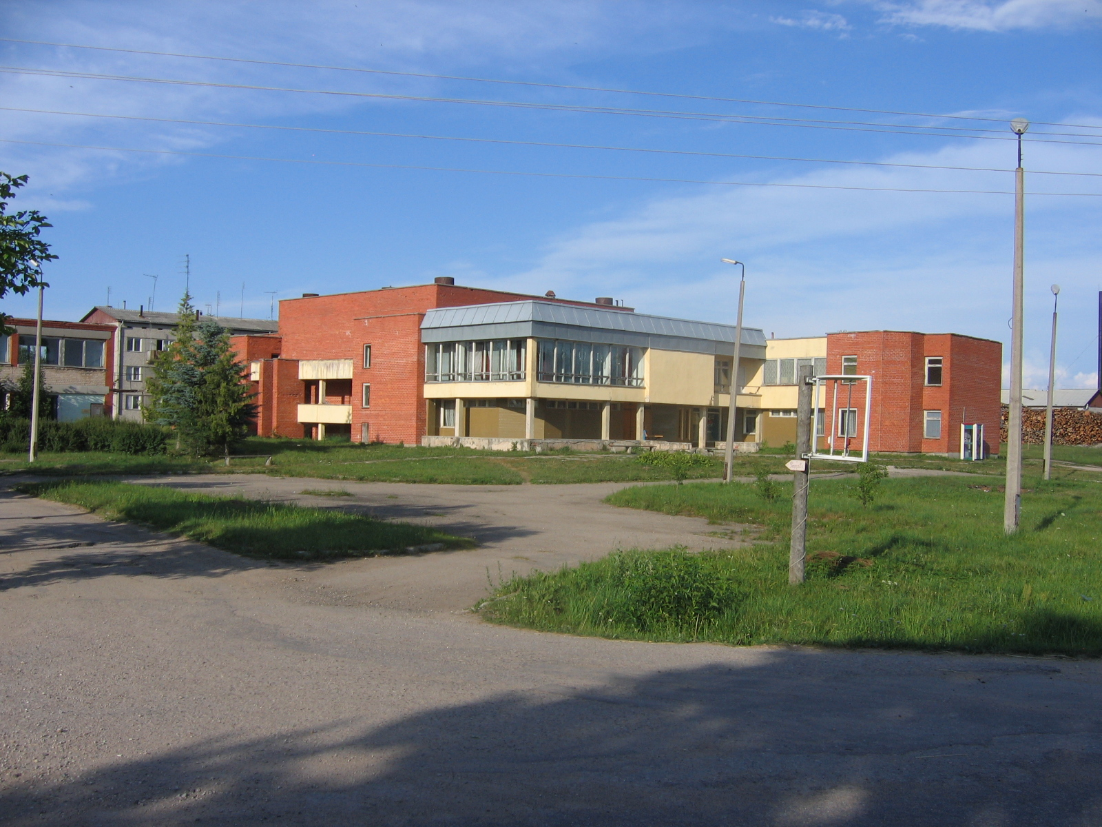 Village of Rundēni